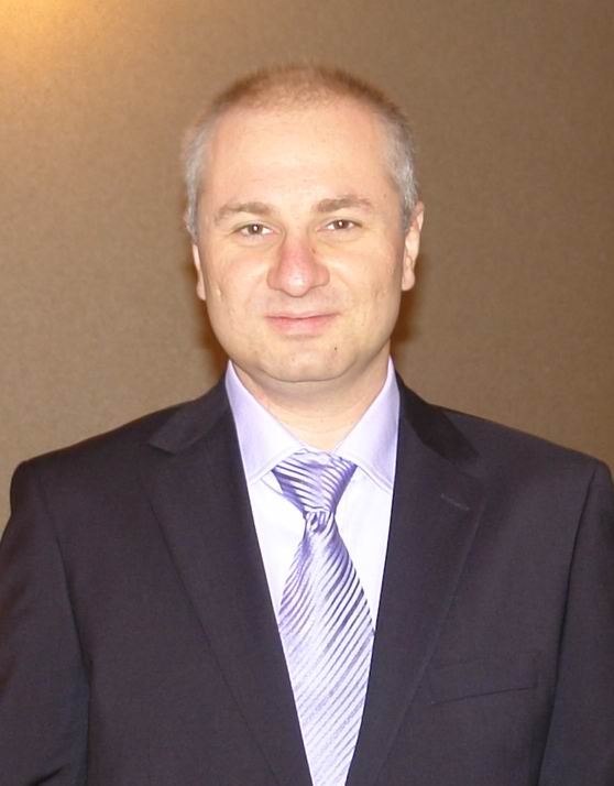 Magomed Yakhyаvich Yevloyev (Магомед Яхьявич Евлоев) (1971 - 31 August 2008) was an Ingush journalist, lawyer, and businessman, and the owner of the news website Ingushetiya.ru, known for being highly critical of Murat Zyazikov, the Kremlin-allied President of Ingushetia, a federal subject of Russia bordering Chechnya.[1] Magomed Yevloyev is not to be confused with the Ingush rebel leader Akhmed Yevloyev, who is also known as Magomed.